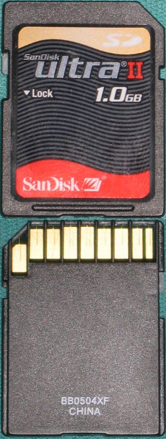 Secure Digital - 1 Gigabyte flash memory